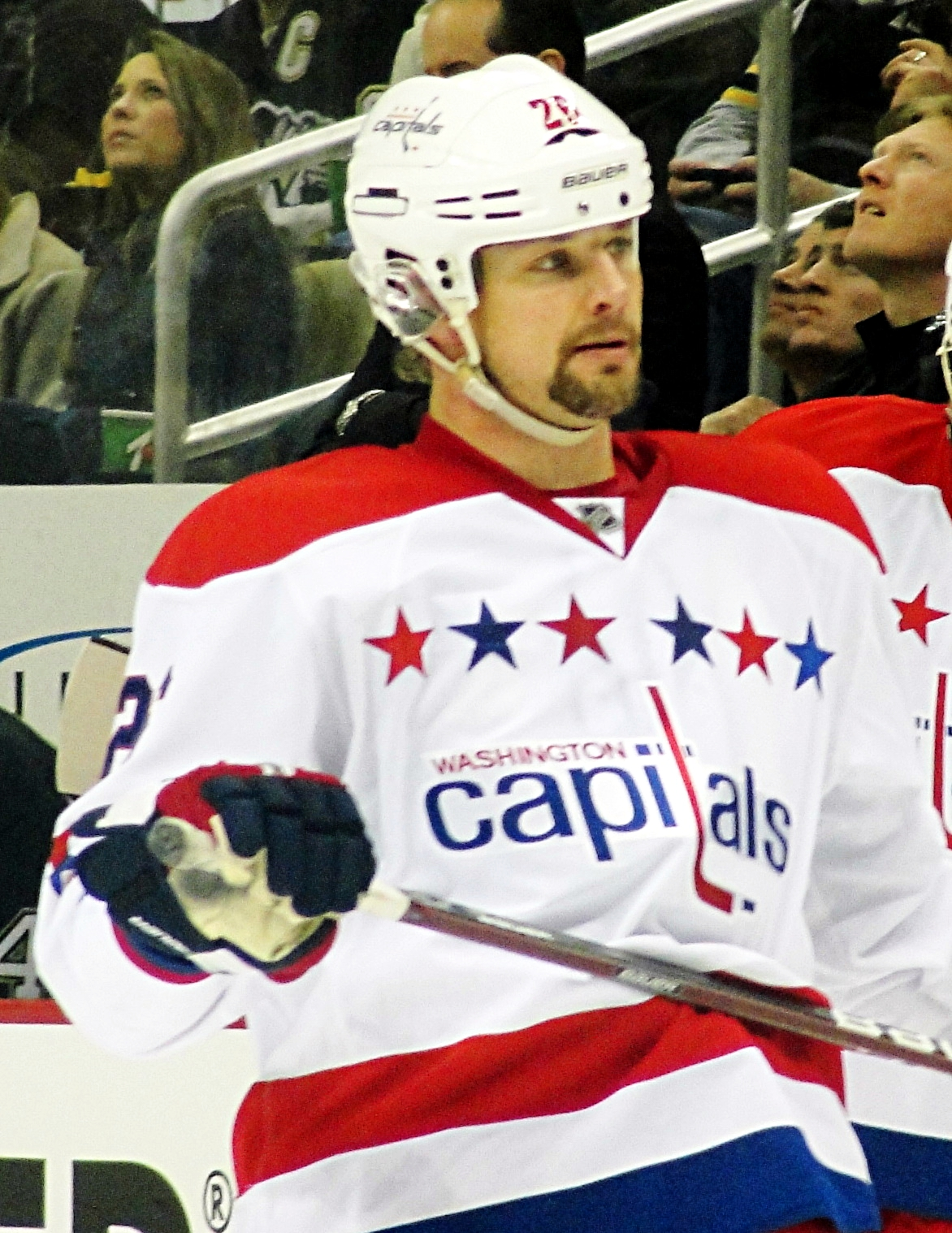 Washington Capitals forward Matt Hendricks during a January 22, 2012 game against the Pittsburgh Penguins at Consol Energy Center in Pittsburgh, PA.